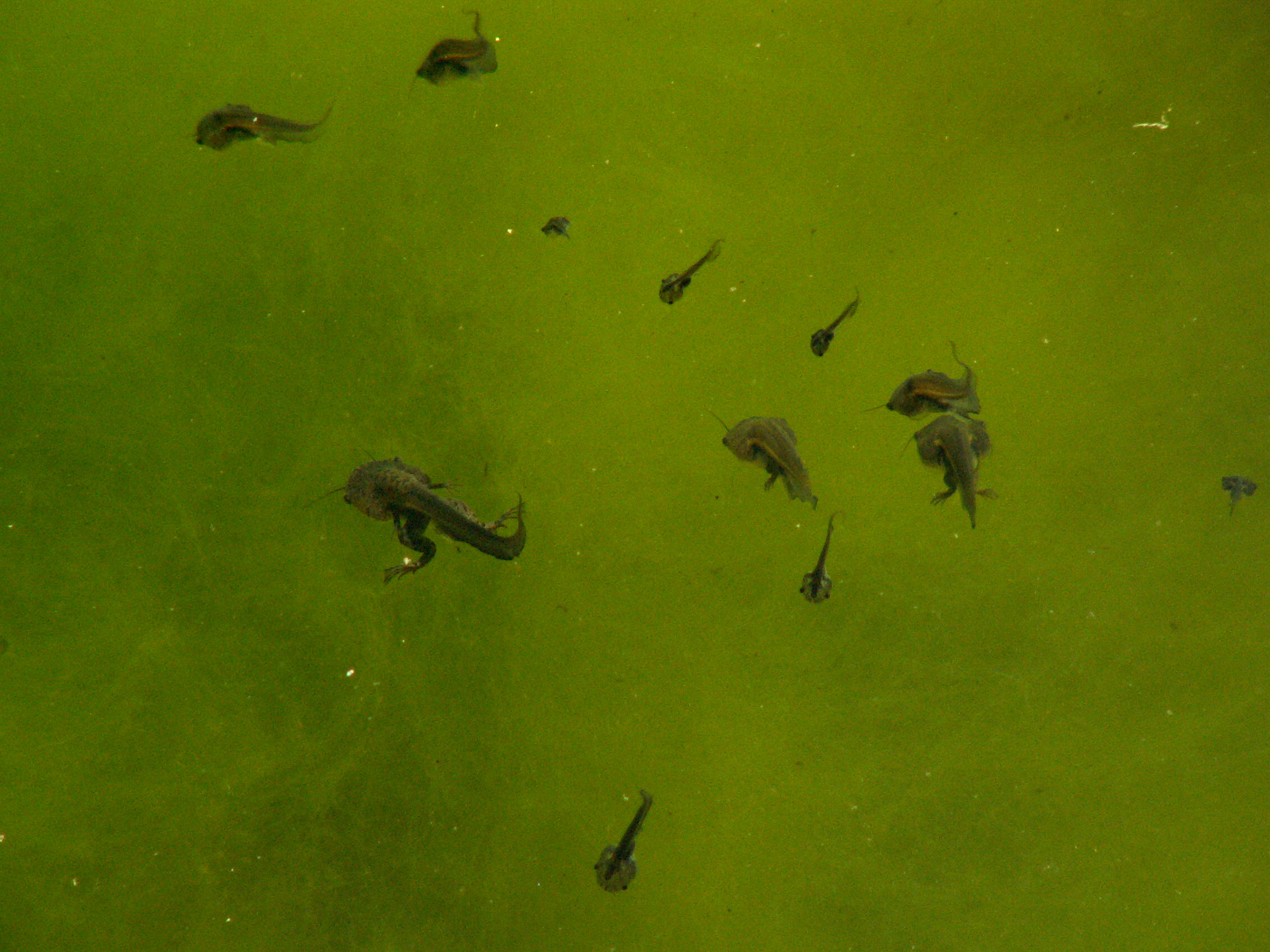 These plancton feeding larvae of the clawed frog (probably Xenopus laevis) are social living creatures. The tentacles give them a catfish like appearance. Taken in Munda Wanga Botanical Garden, Lusaka, Zambia